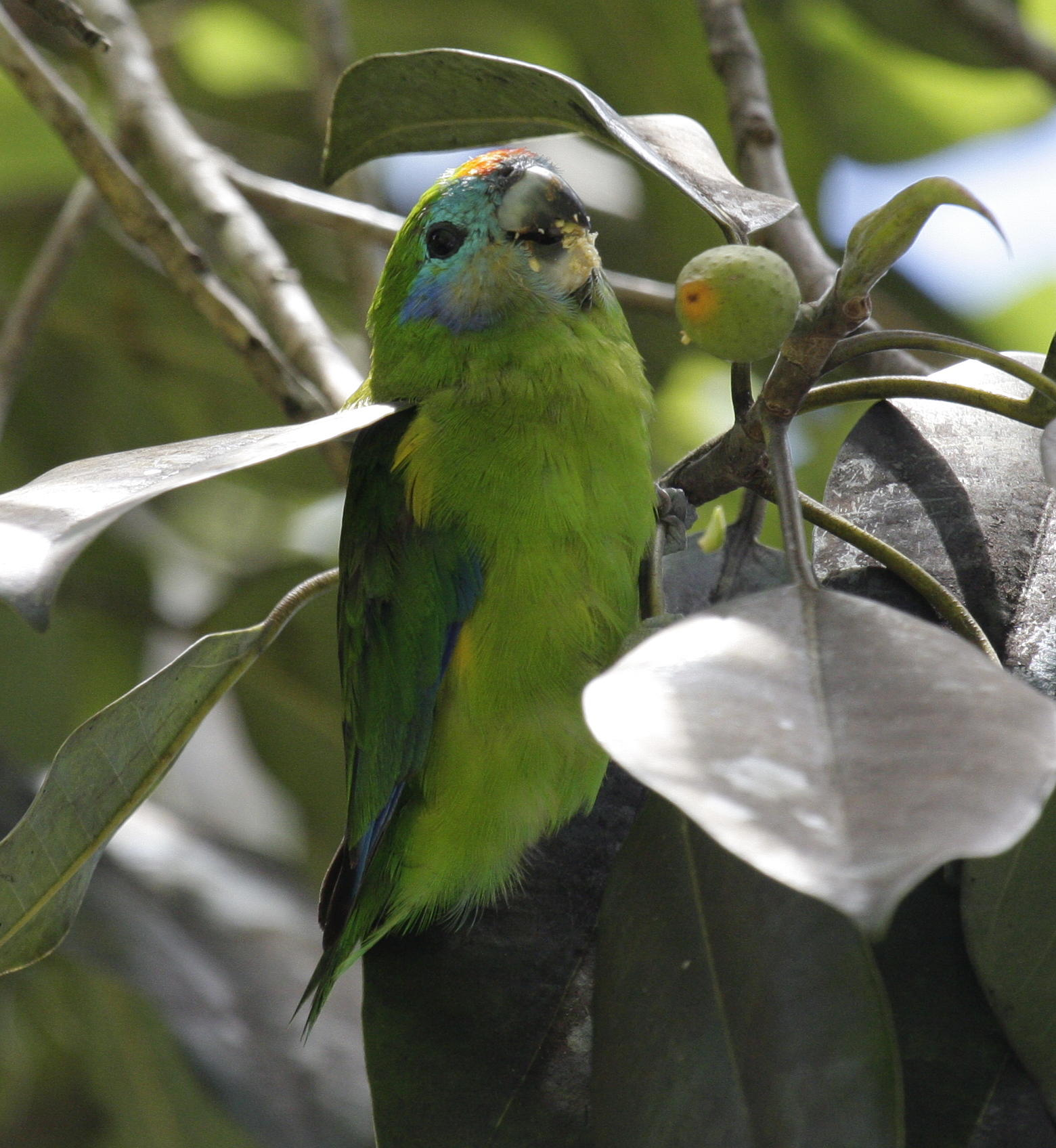 Female Double-eyed Fig-Parrot (Cyclopsitta diophthalma) race macleayana Mt Hypipamee NP, North Queensland, Australia